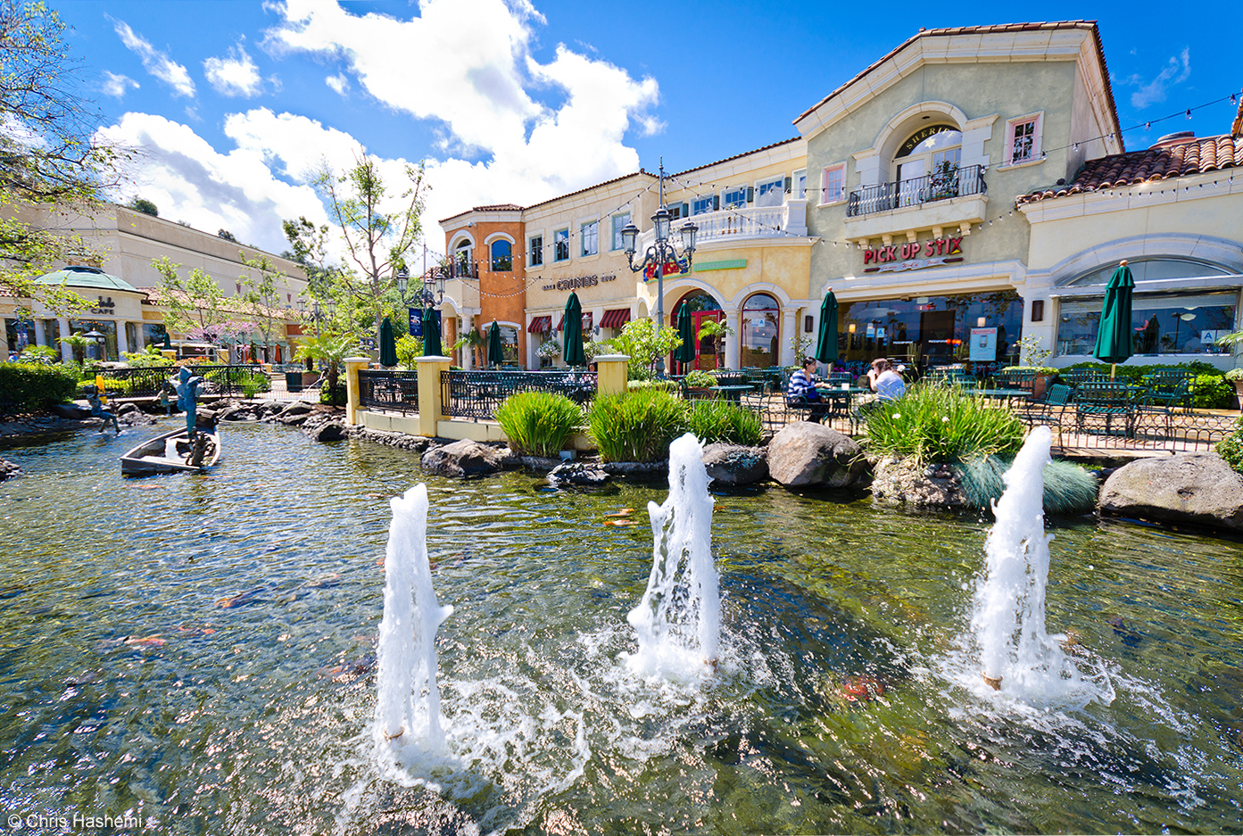 The fountains at The Commons at Calabasas